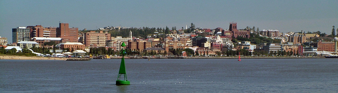 View of Newcastle CBD, looking across from Stockton